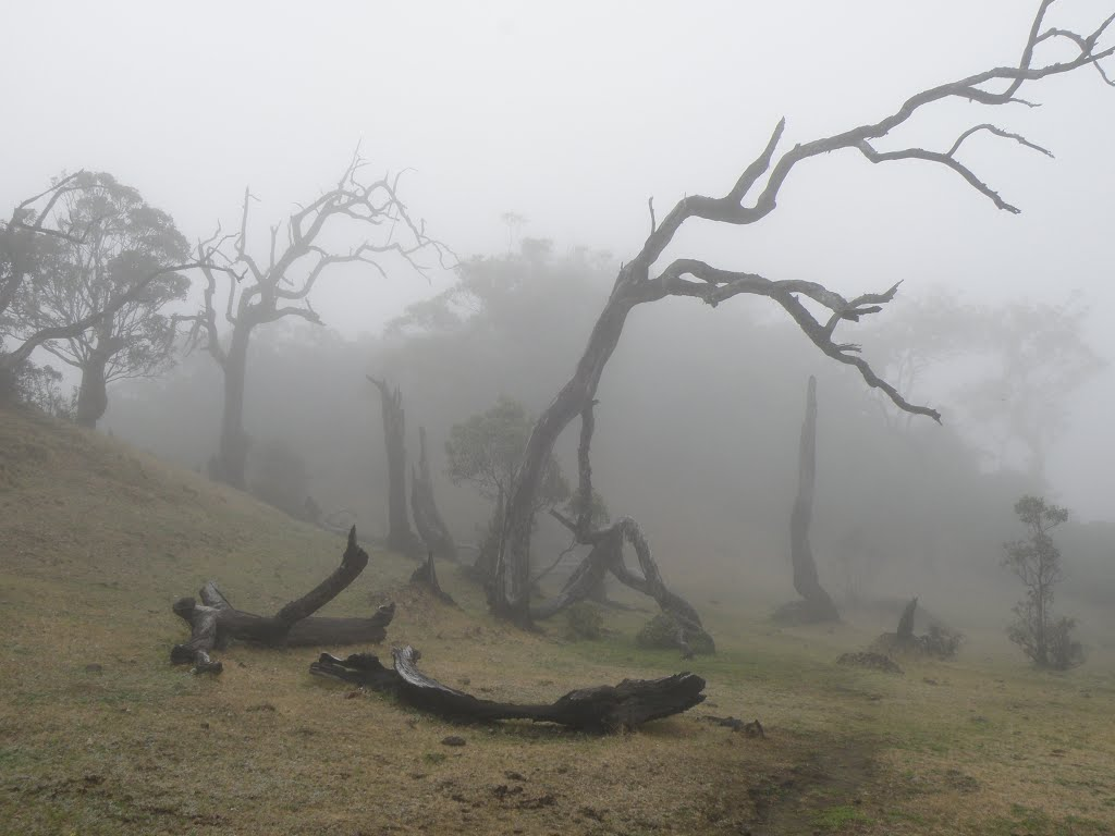 Life in the clouds. forest view on Mt Ramelau, Hatu Builico, Ainaro, Timor-Leste.jpg